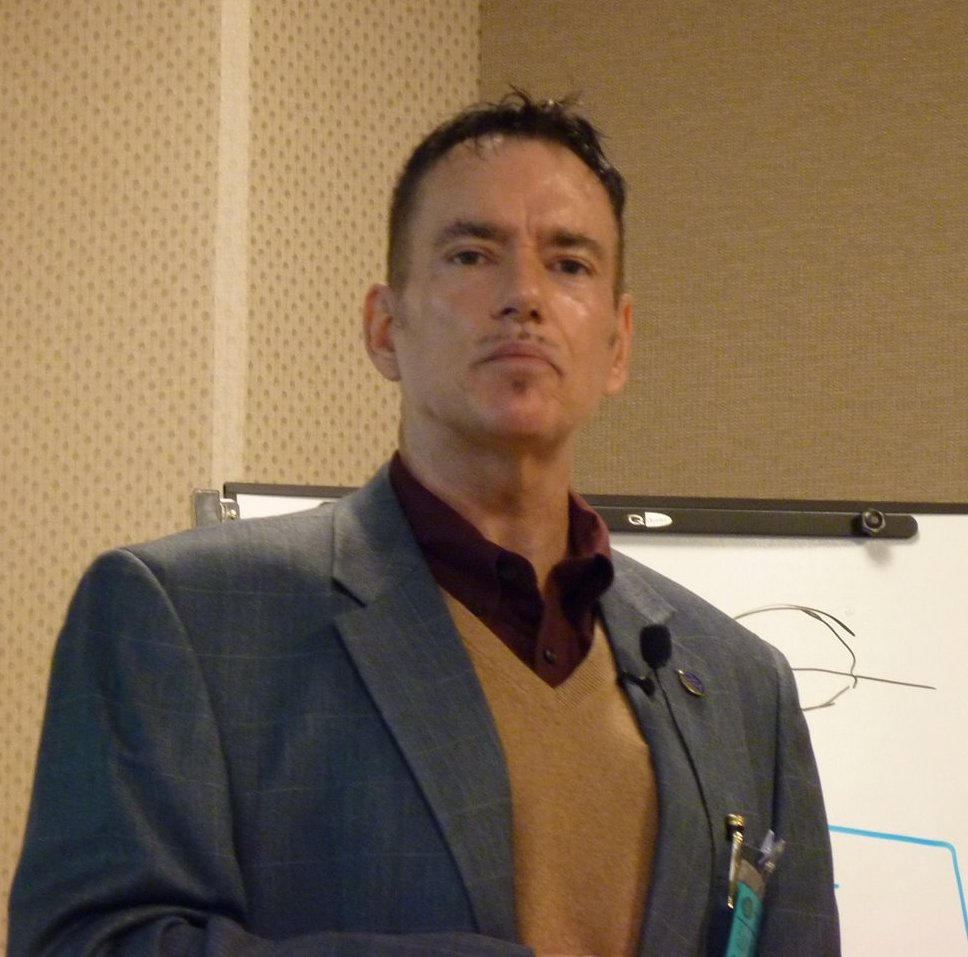 Photo of Jonathan P. Dowling